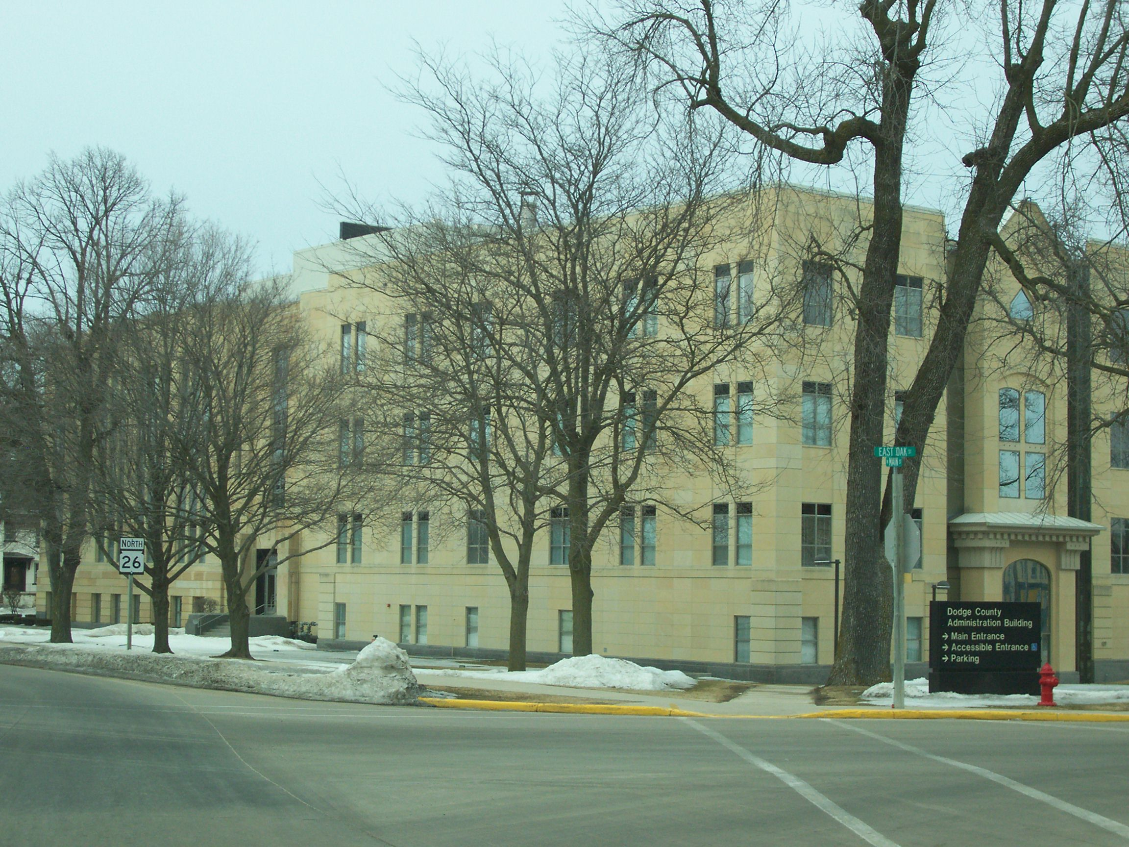 The Dodge County, Wisconsin courthouse in Juneau, Wisconsin, USA on Wisconsin Highway 26.